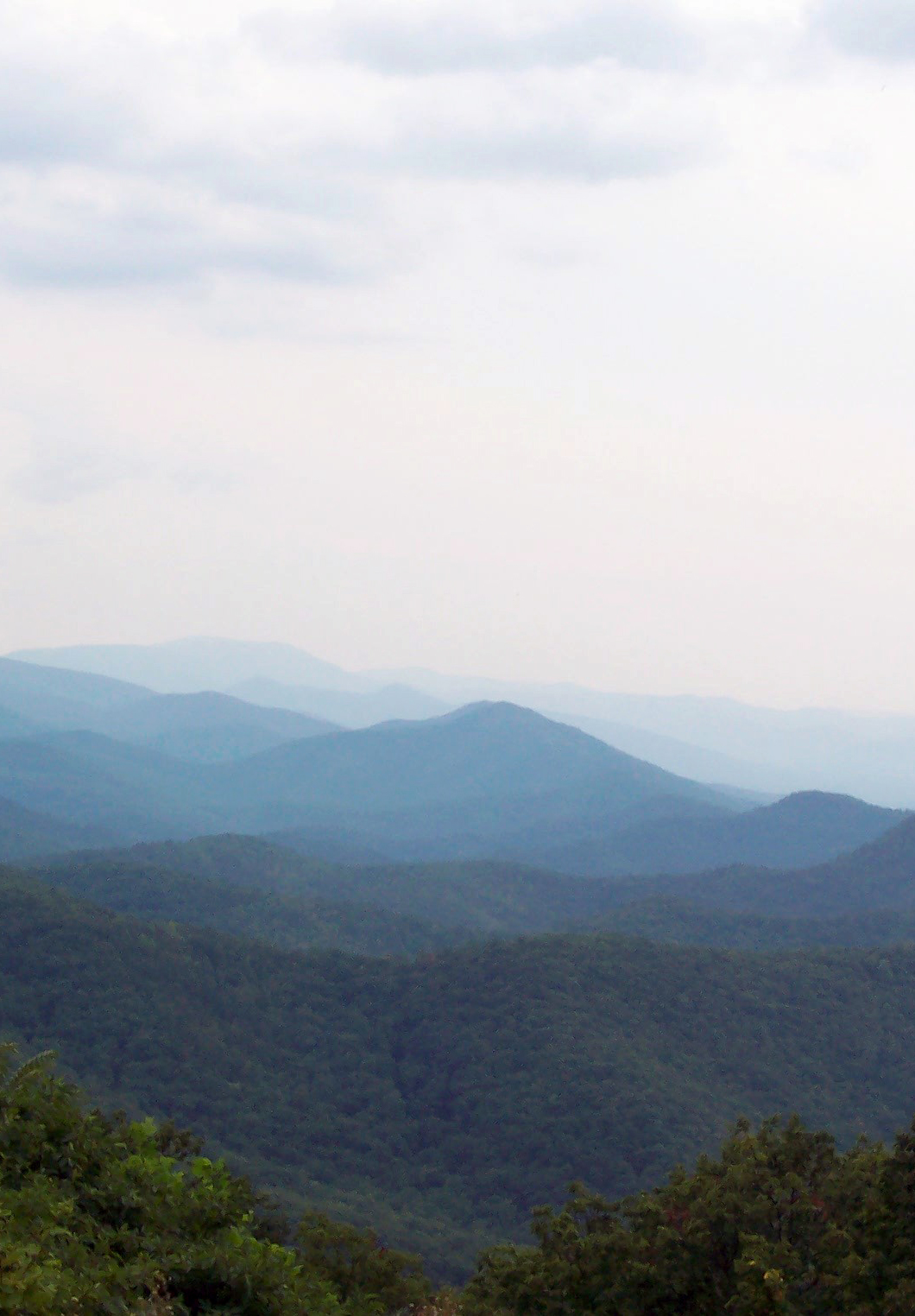 Chimney Rock Mountain is located in Virginia near Nelson County. The elevation reported on a sign posted at this scenic overlook off the Blue Ridge Parkway was 2485 feet above sea level.